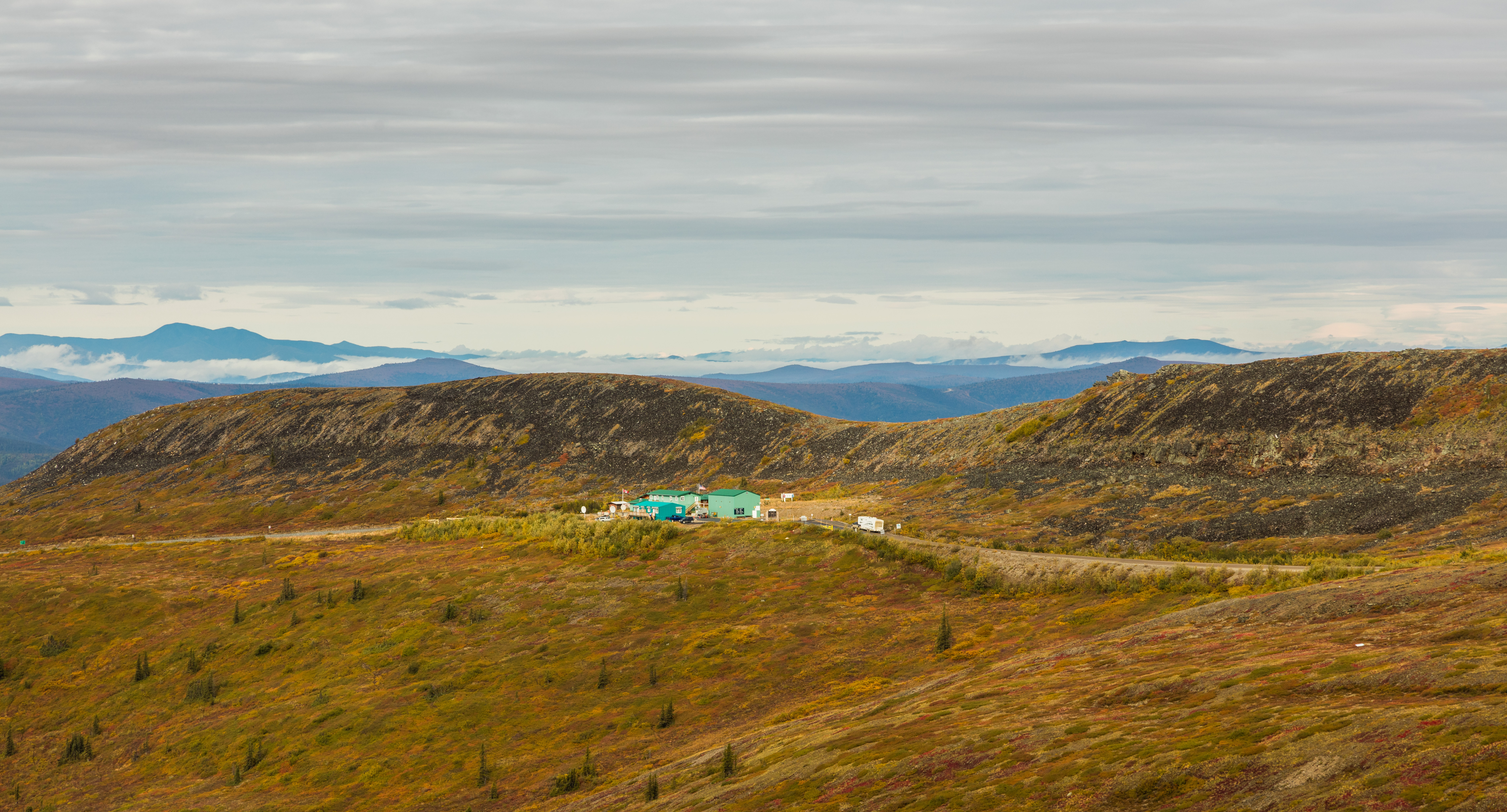 View from the Top of the World Highway, Yukon, Canada